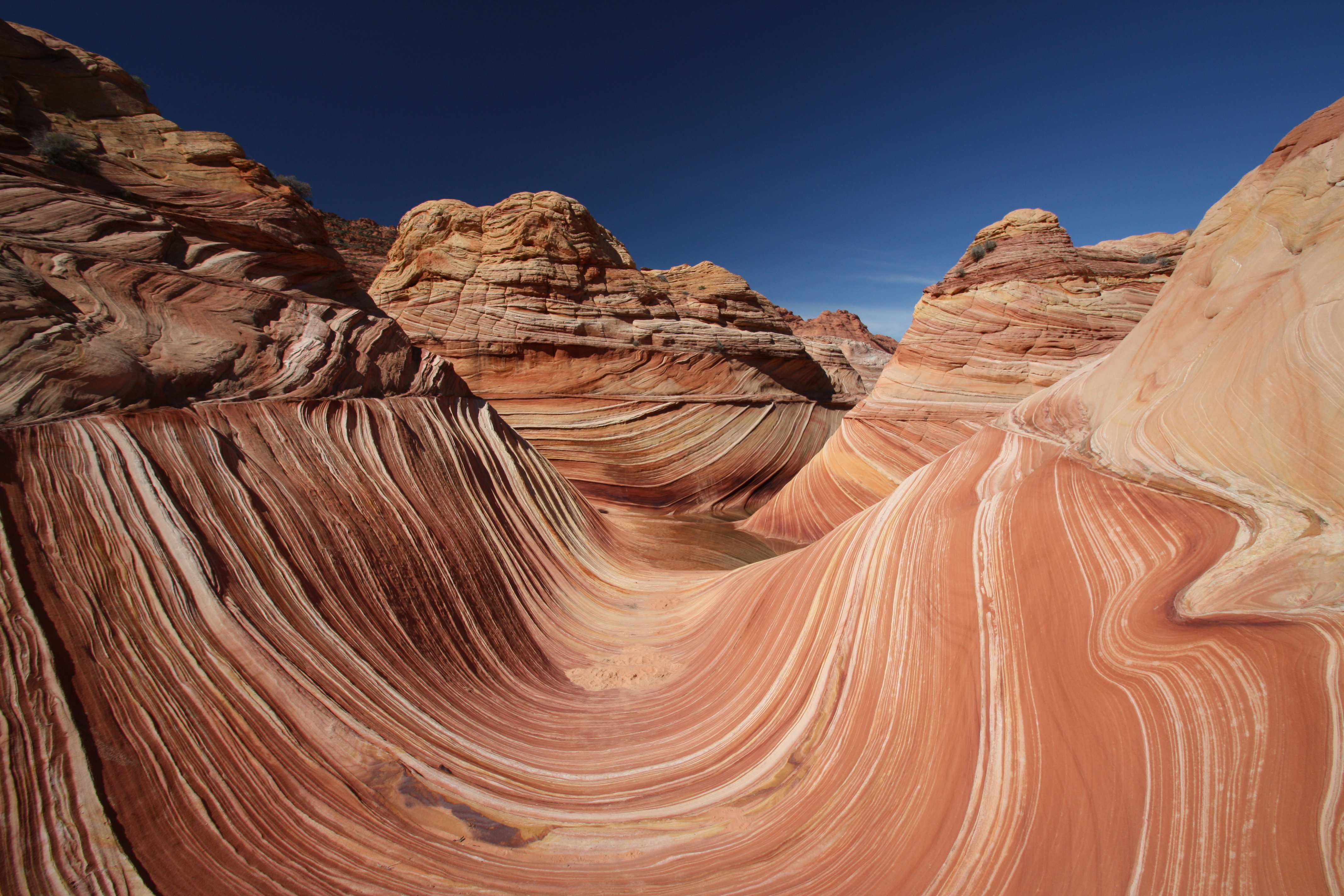 Vermillion Cliffs Wilderness, North Coyote Buttes, petrified Sand Dunes called The Wave